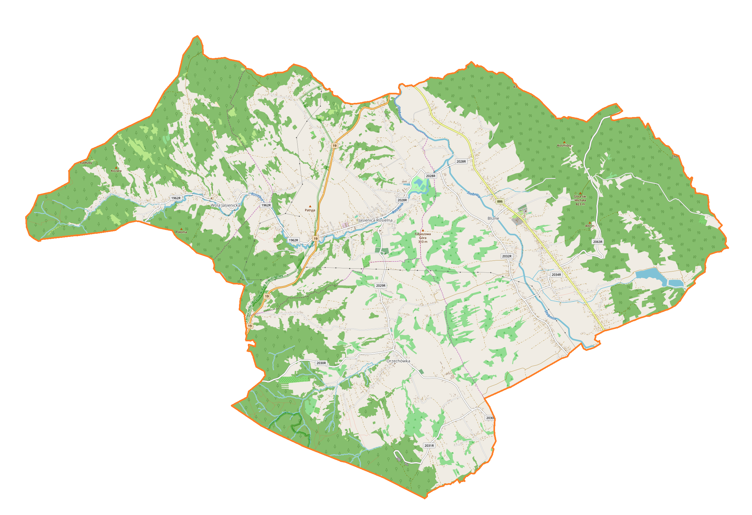 Location map